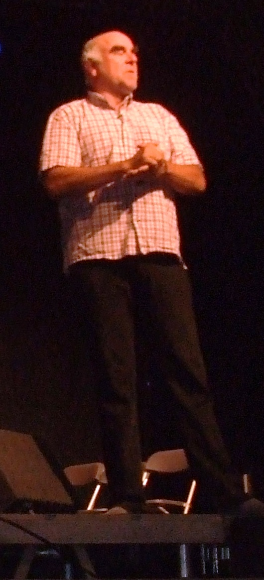 UK Comedian Stephen Frost taken at Glastonbury Festival